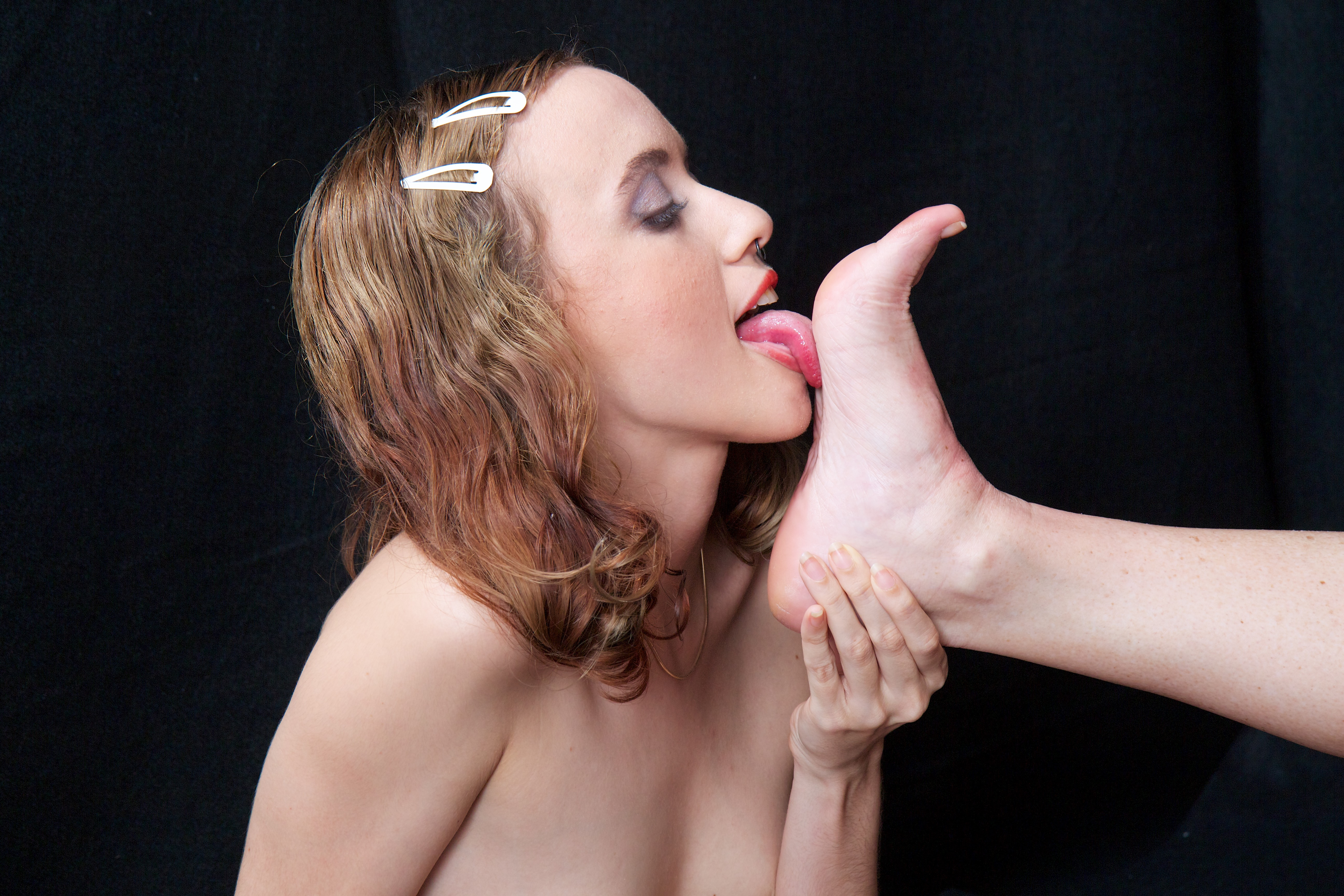 Kathy, MM#1579885 Dominates Sara, MM#2005874